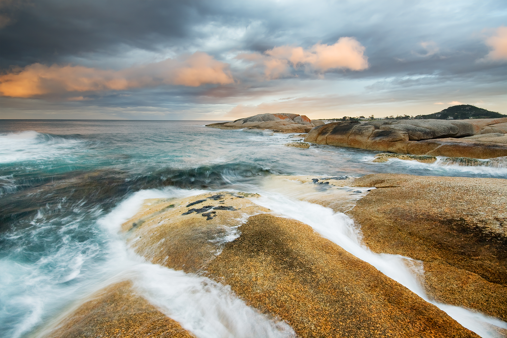 Seascape at Bicheno, Australia